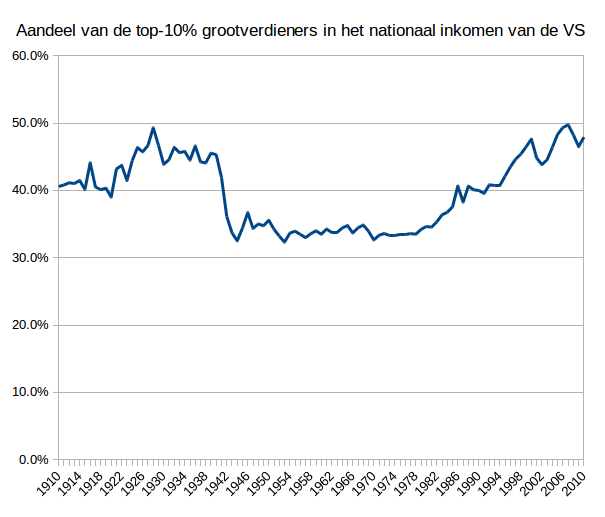 Dutch version of